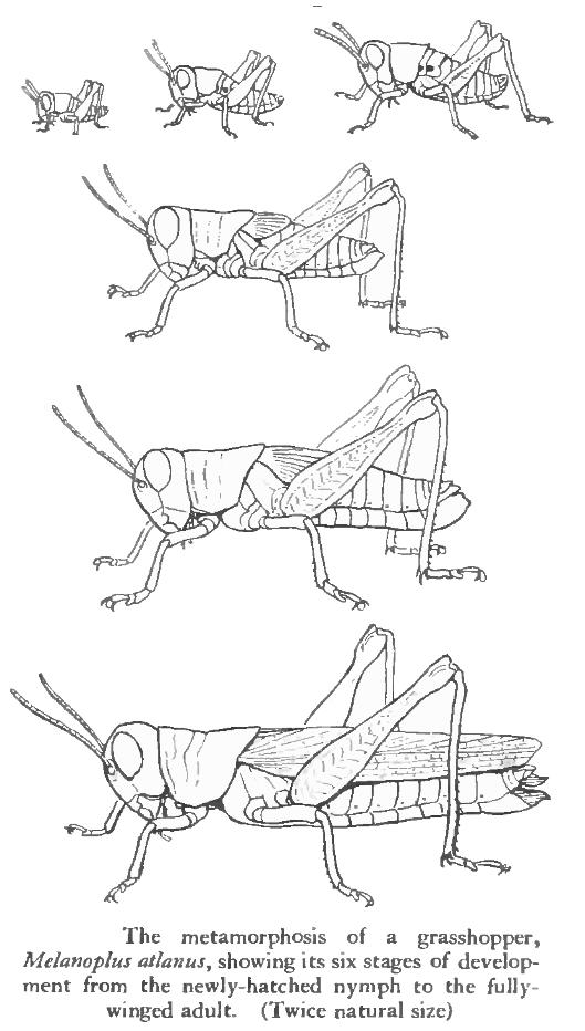 Grasshopper metamorphosis - Melanoplus sanguinipes atlanis (Riley, 1875)